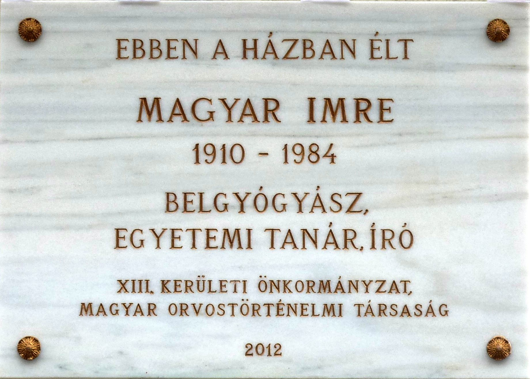 Commemorative plaque to Dr. Imre Magyar (1910-1984) Hungarian physician, writer and professor, specialist in internal medicine and director of the 1st Department of Internal Medicine of the Semmelweis University. It is affixed to the wall of the building where he lived. The plaque was unveiled on 12 October 2012. (Budapest, District XIII, Radnóti Miklós Street Nr 21/b).